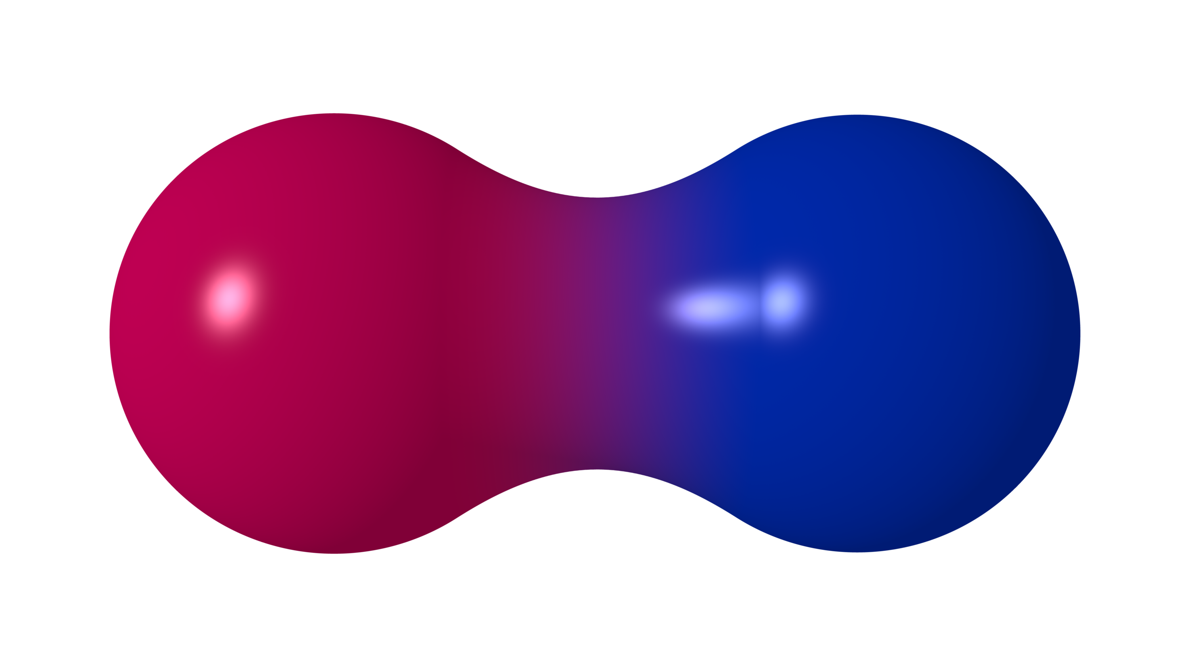 Part of a series of 2 differently colored metaballs, and how they interact with each other. The series was created using Bryce, for illustrating the wikipedia article on metaballs.